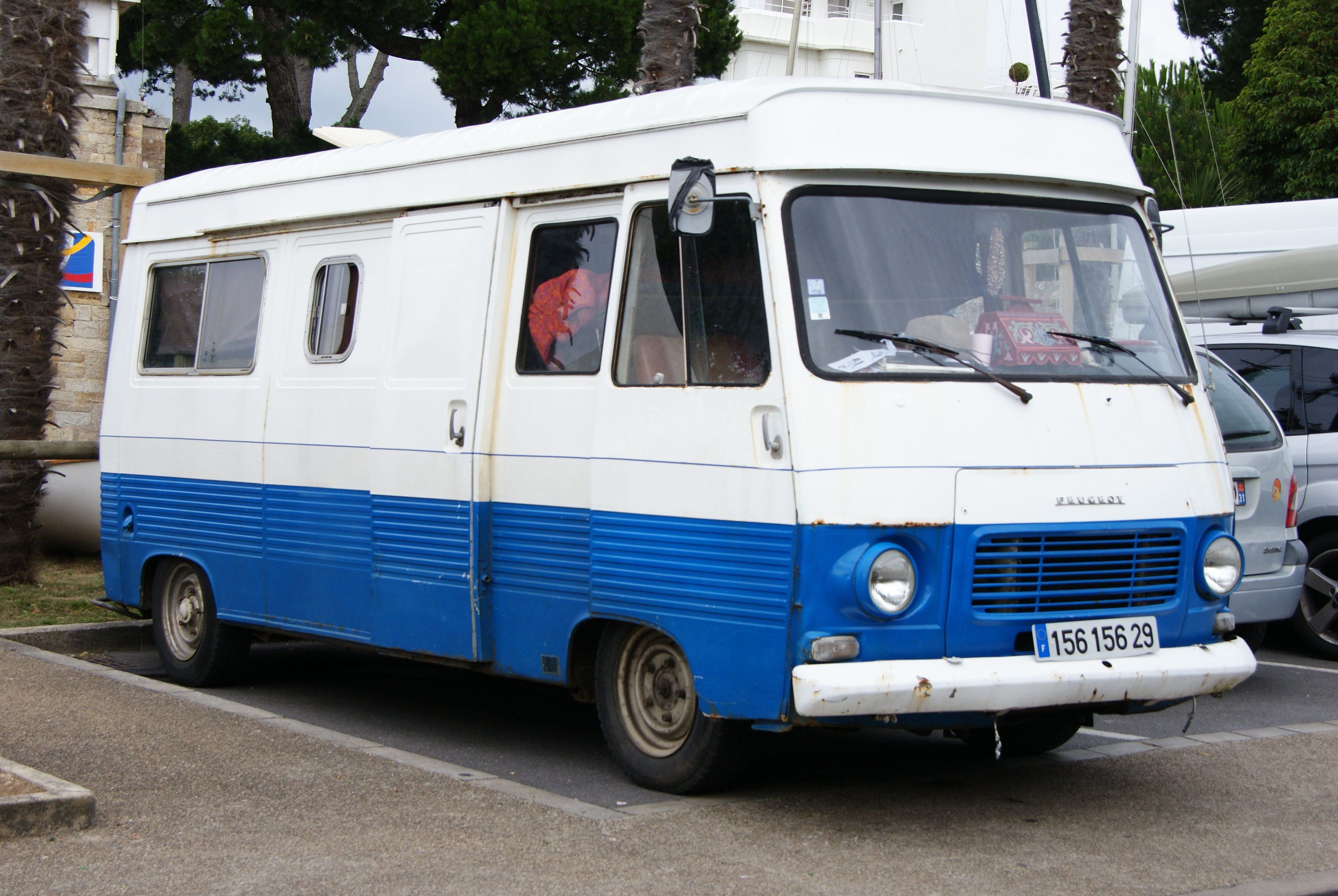 Peugeot J7 based mobile home